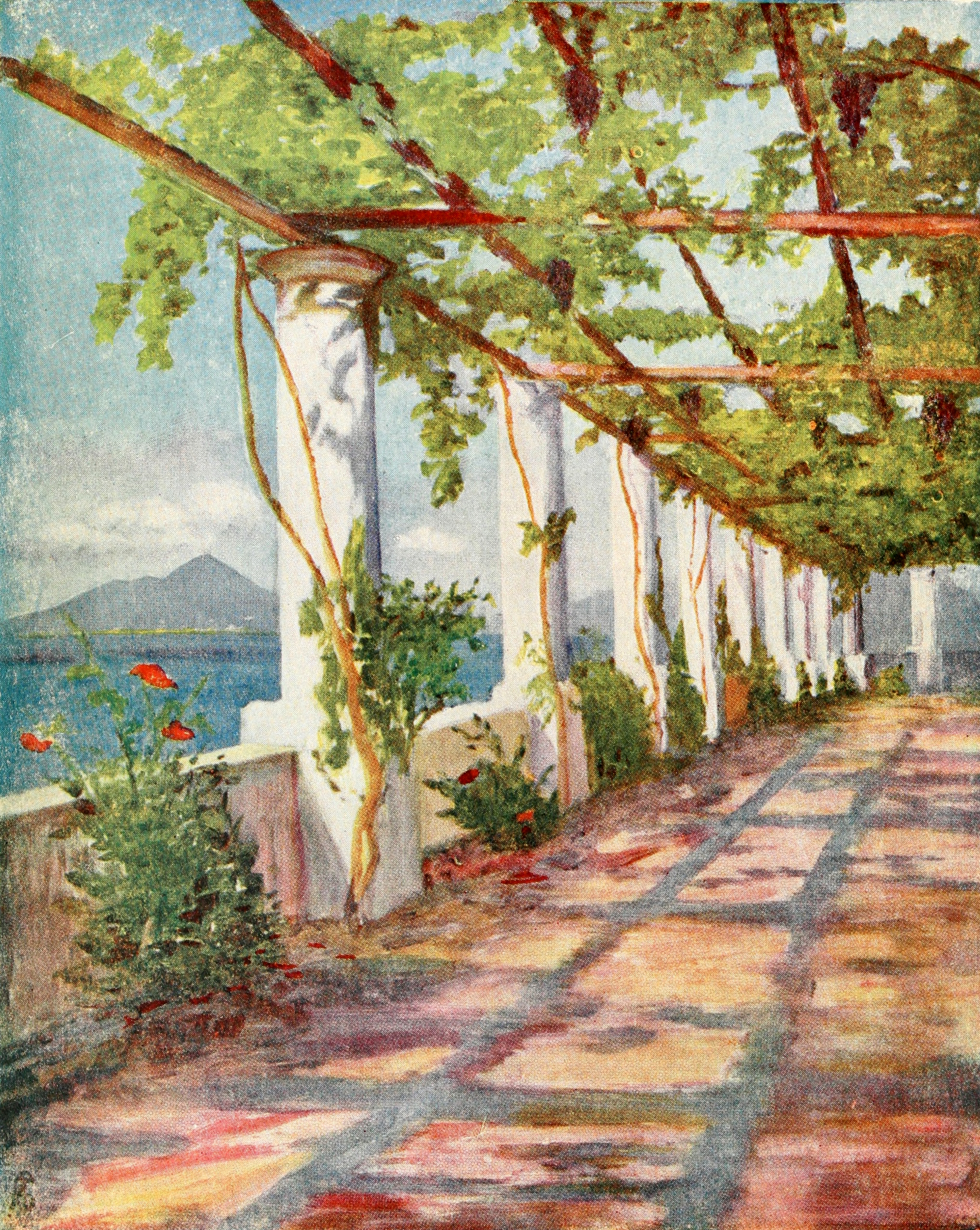 A pergola looking out on Mount Vesuvius, from the Villa of San Michele in Capri.